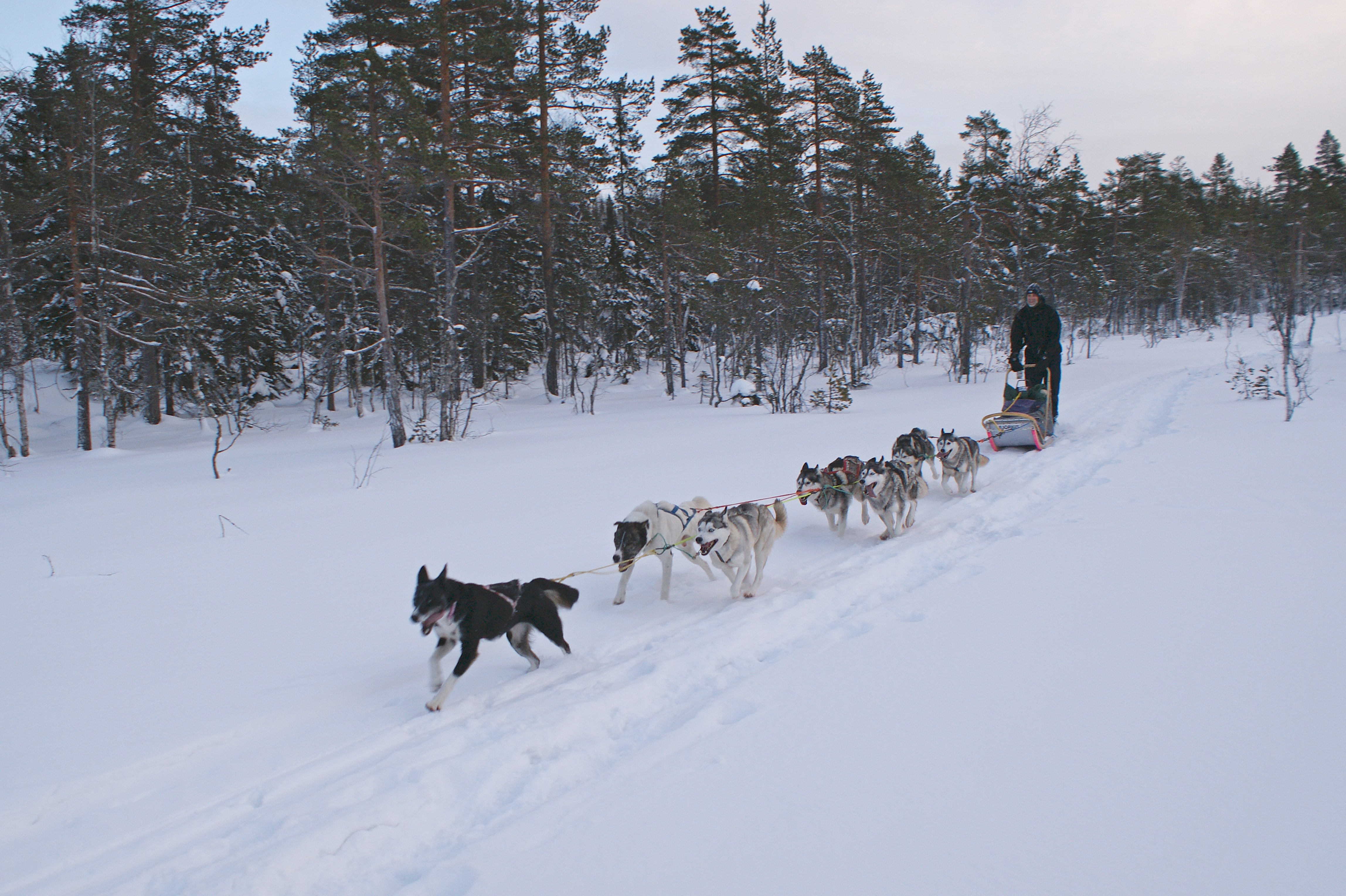 With Stella in front:)